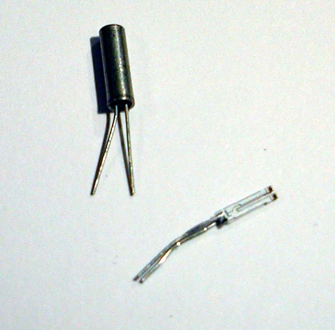 Quartz crystal resonator in the shape of a small tuning fork designed to vibrate at 32,768 Hz.